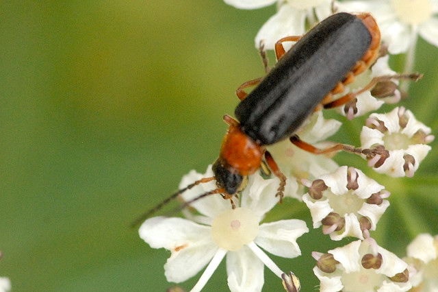 Cantharis nigra from Commanster, Belgian High Ardennes .